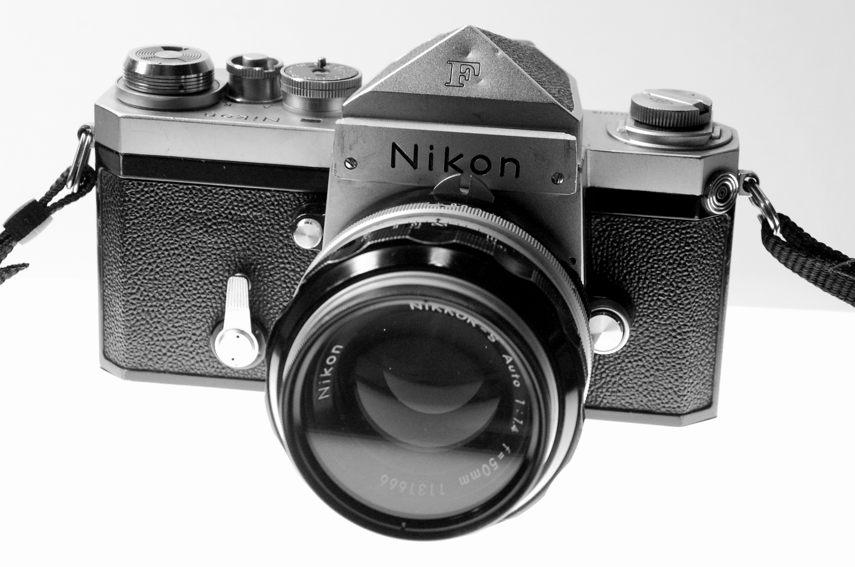 1971 Nikon F (late production) with a dented but clear prism (no light meter) and a Nikkor 50mm f/1.4 lens.